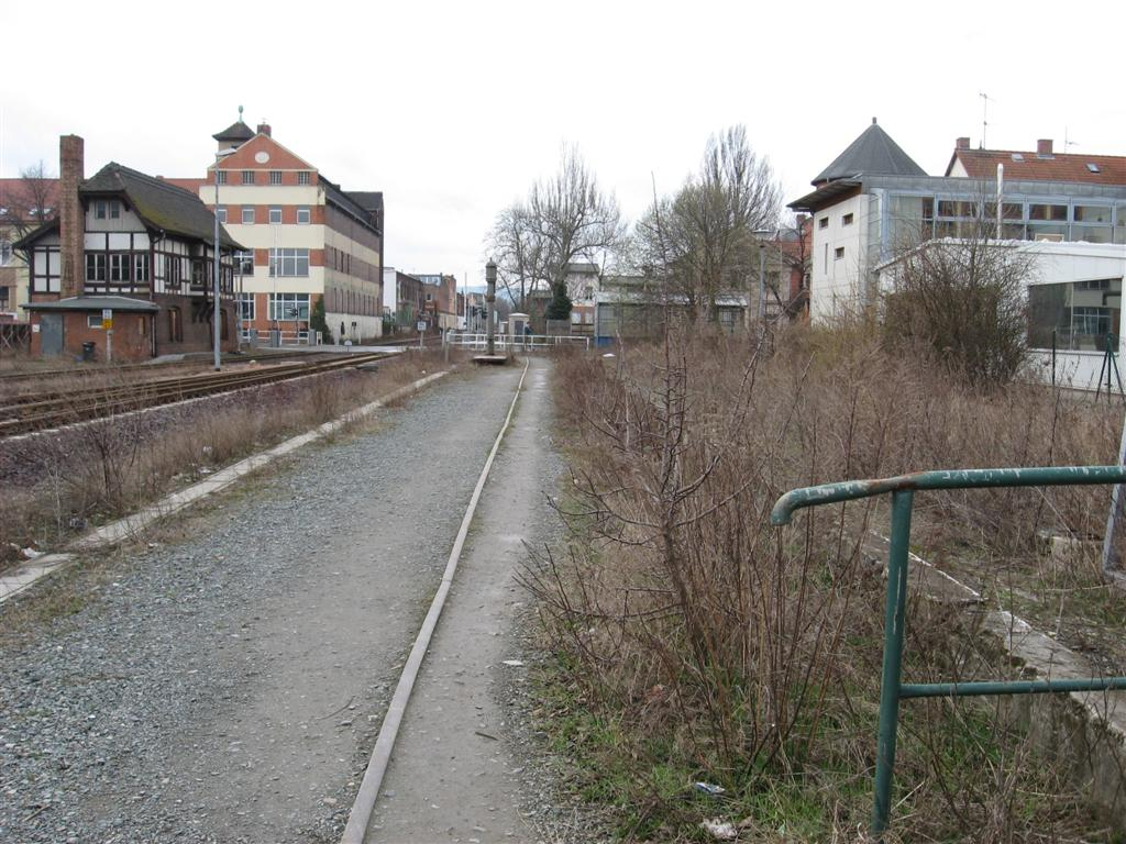 old platform 1 west of Train station in Quedlinburg of the Quäke, on the left the railway to Thale, at background the railway of Selketalbahn